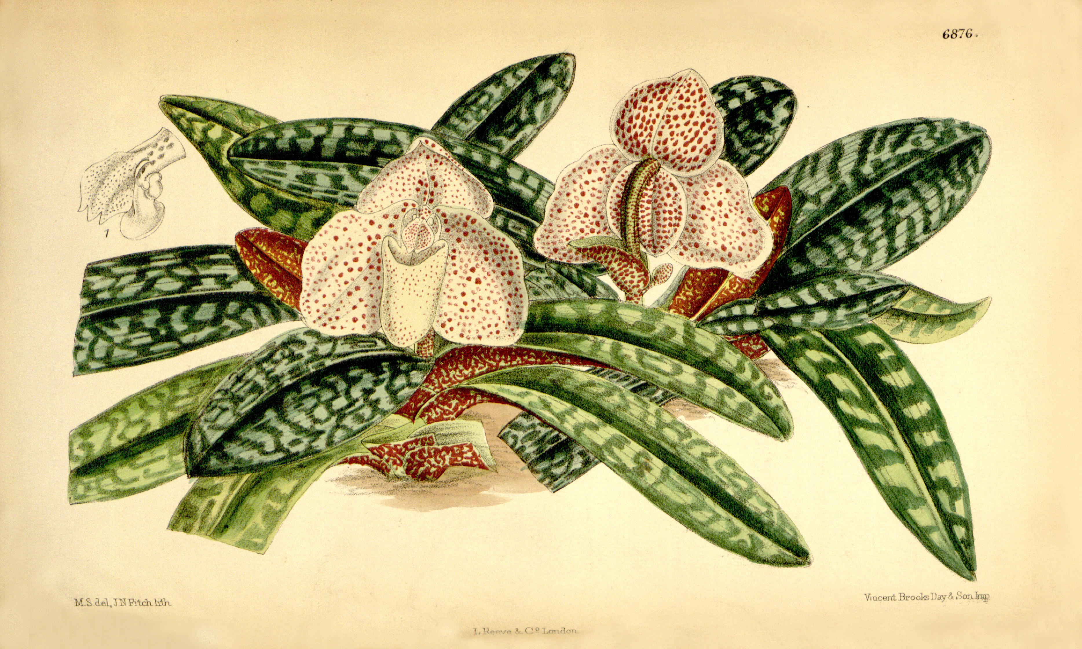 Illustration of Paphiopedilum godefroyae (as syn. Cypripedium godefroyae)